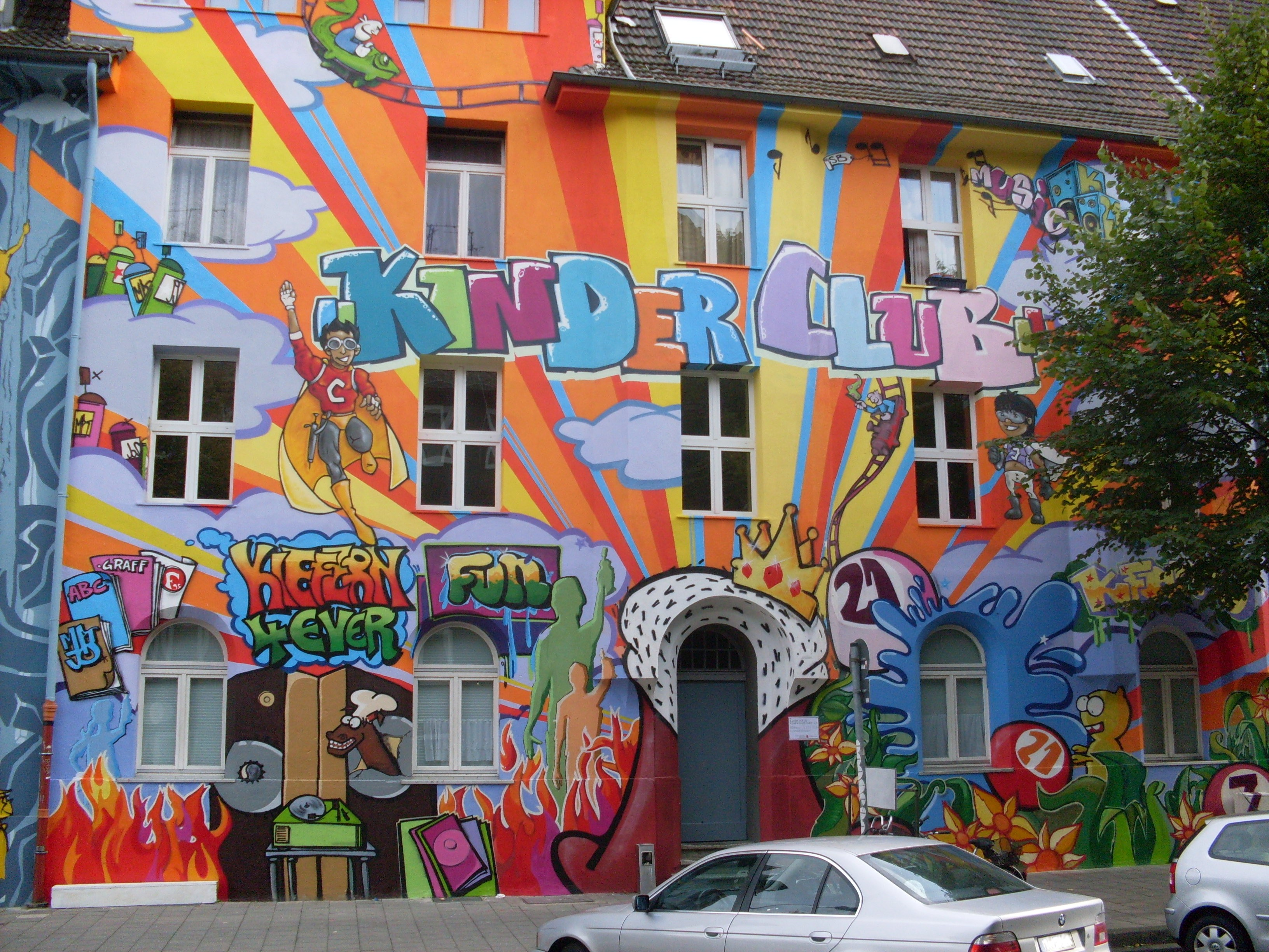 Duesseldorf Streetart at Kiefernstrasse